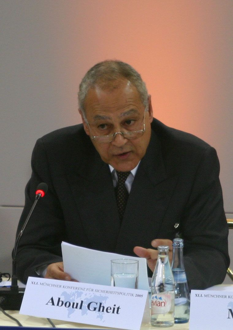 41st Munich Security Conference 2005: The Minister of Foreign Affairs, Arab Republic of Egypt, Ahmed Abu-El Gheit during his speech.